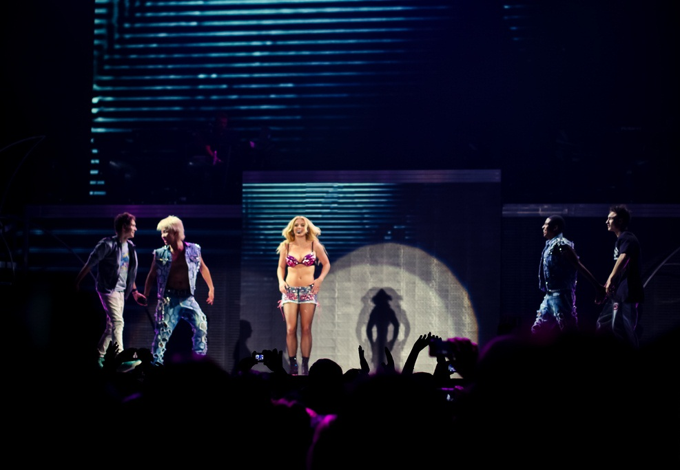 Britney Spears performing "I Wanna Go" at 2011's Femme Fatale Tour live in Ukraine.